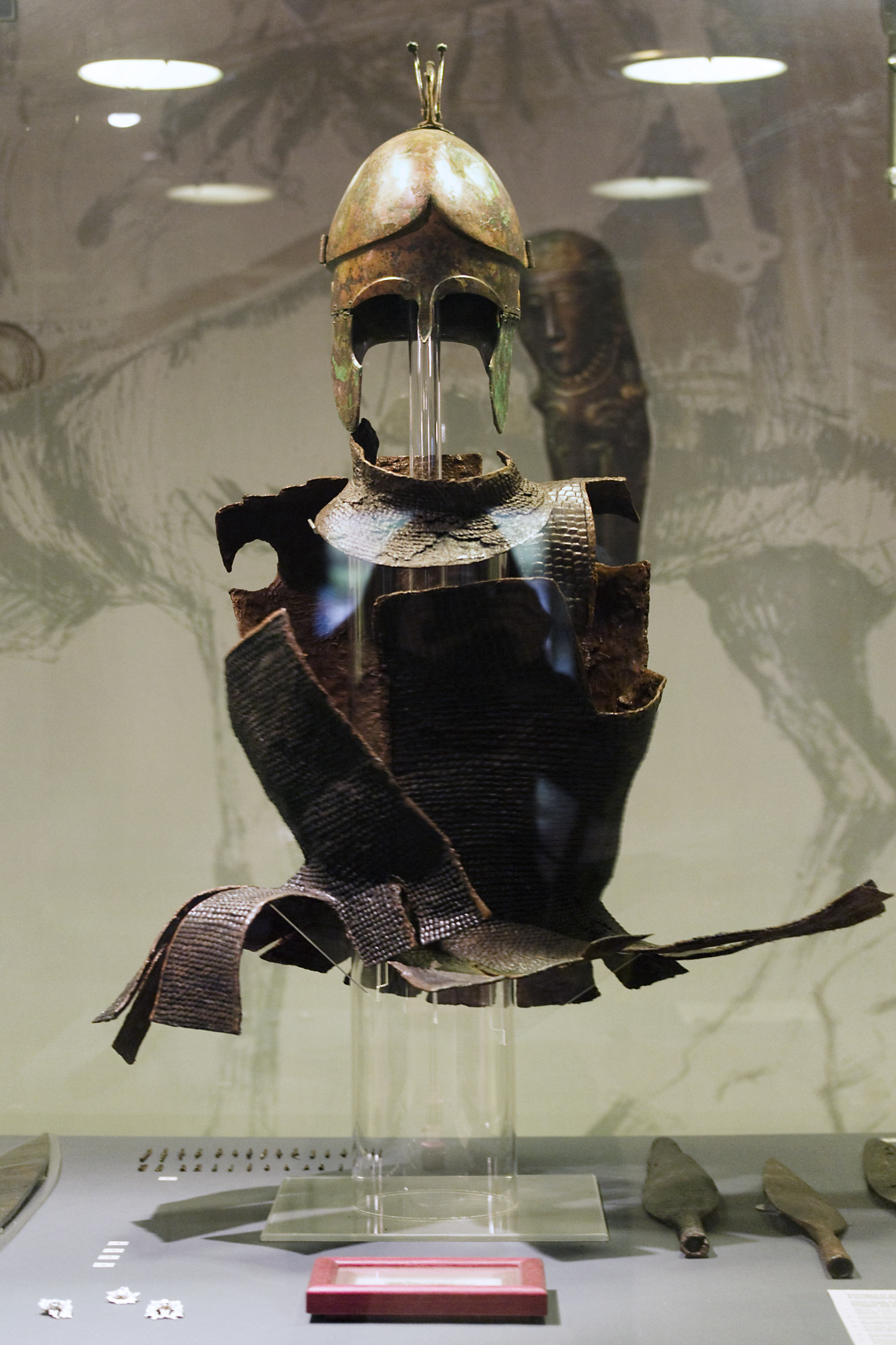 This warrior dress was part of the burial gifts of an Odrysian Aristocrat, discovered in Golyamata Mogila (the Big Tumulus), situated between the villages of Zlatinitsa and Malomirovo in the Yambol Region, Bulgaria. It is dated to the mid 4th century BC and consists of a bronze helmet of the Chalkidean type with unique decorations of coiled snake and an iron, scaled armour. The burial also contained swords, spears and bronze arrow heads.